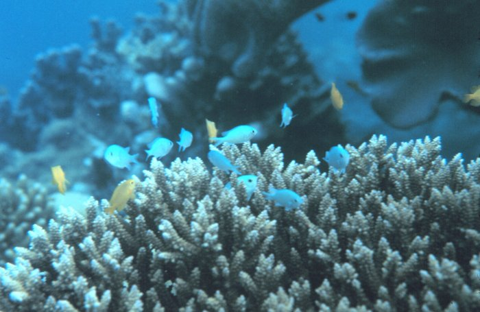 The Coral Kingdom Collection. Location: Truk Lagoon Reef (Chuuk)